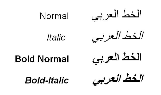 Adobe Arabic font that uses Italic style.